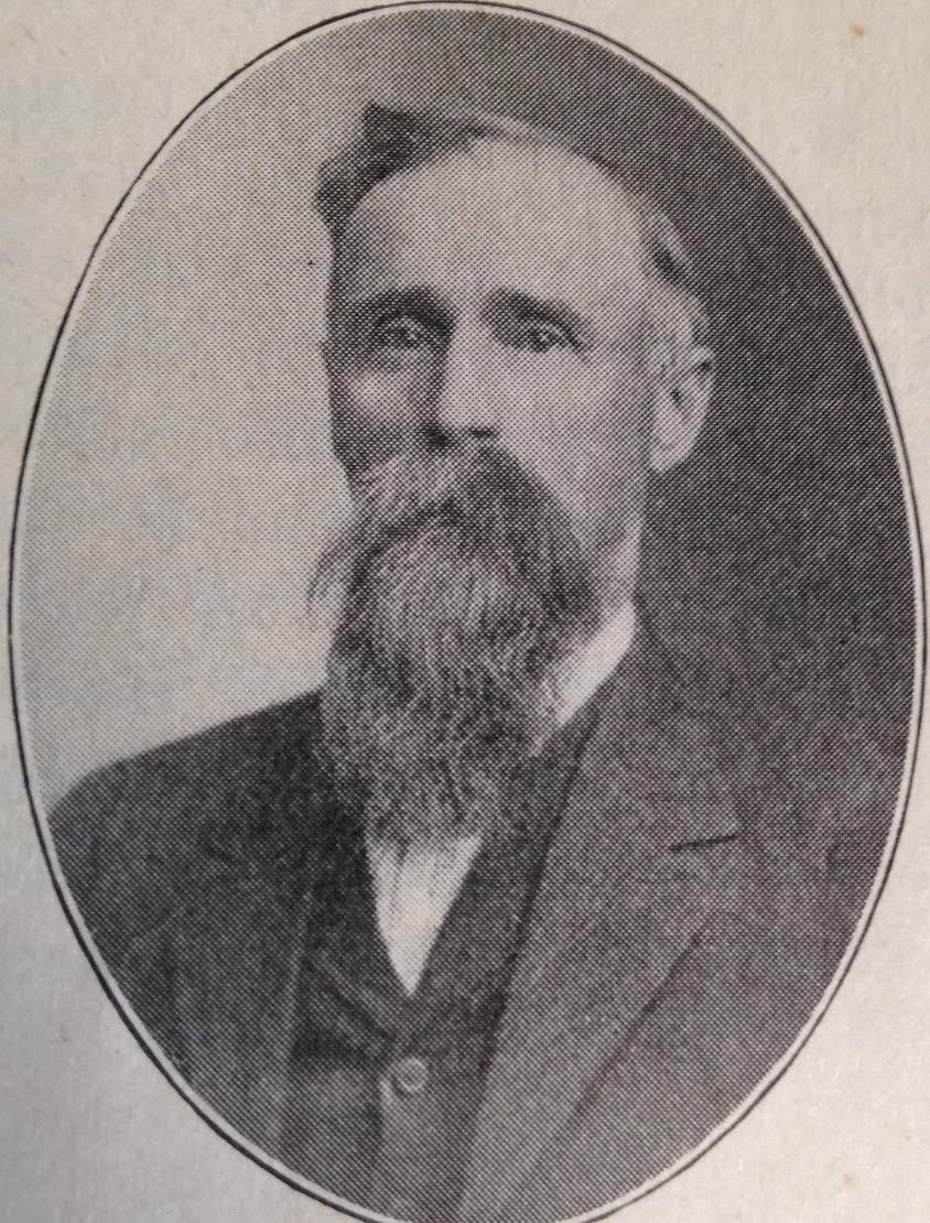 John Q. Briggs was a Minnesota State Republican Senator during 1907-1911.